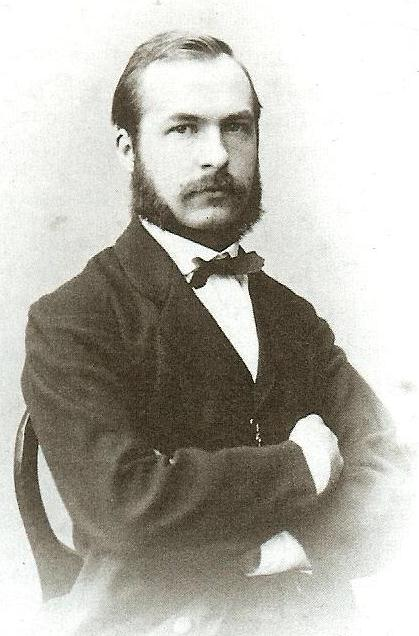 Eduard Hach, portrait photograph by Hermann Linde